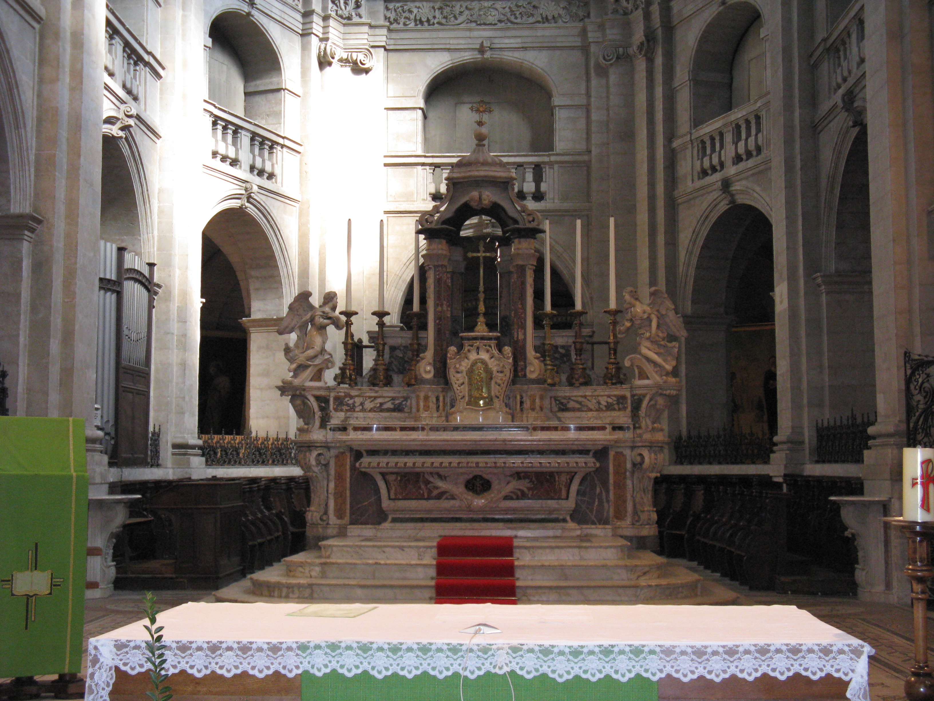 Cathedral of Dax, altar